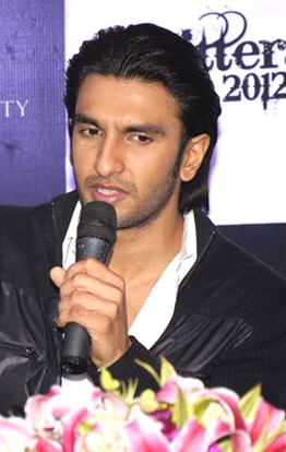 Ranveer Singh at Sahara Star New Year's bash press meet